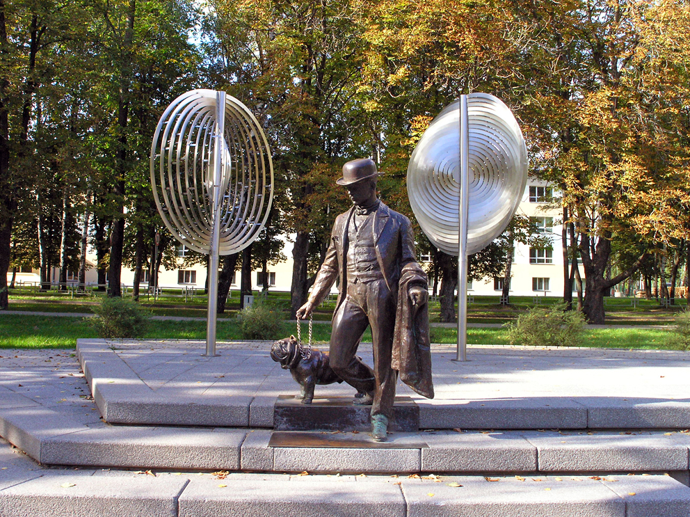 Pavel Dubrovin statue in Daugavpils